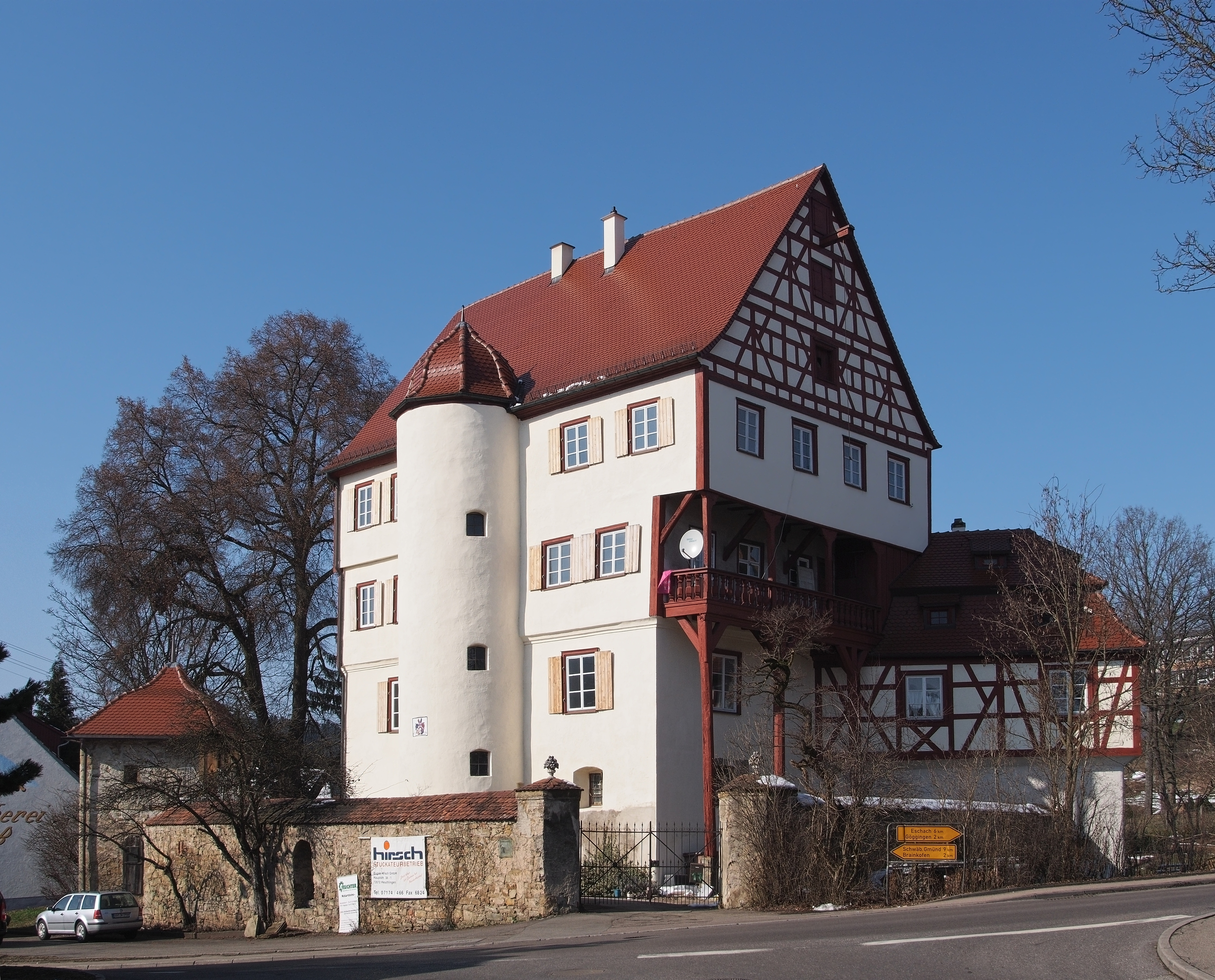 Leinzell Castle, Germany